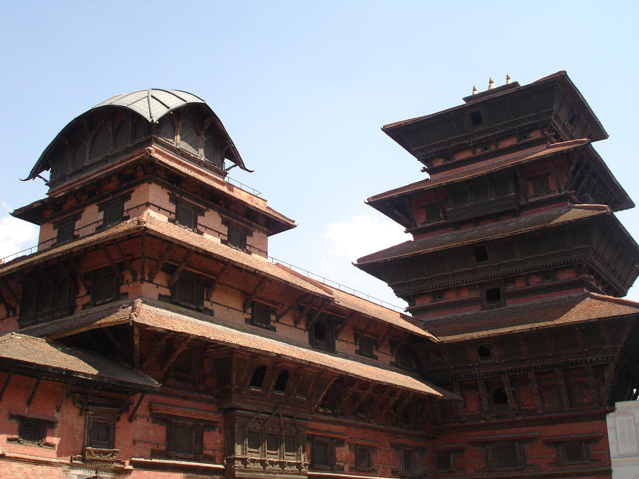 Basantapur Tower at Kathmandu Durbar Square.